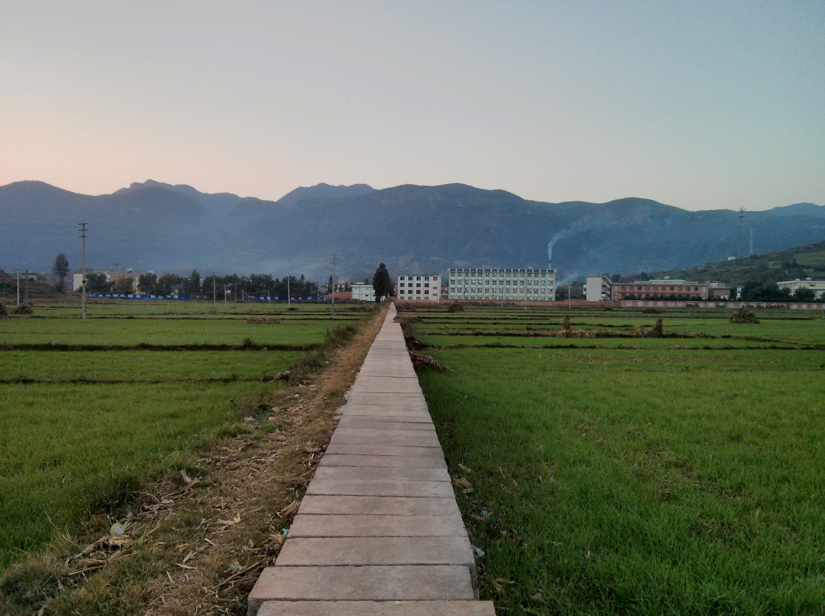 Field in the village of Hekouxiang (河口乡) in Yunnan province in China on November 24 2013.